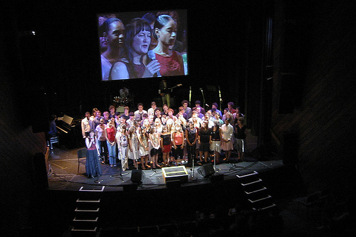 A show at Berklee Performance Centre